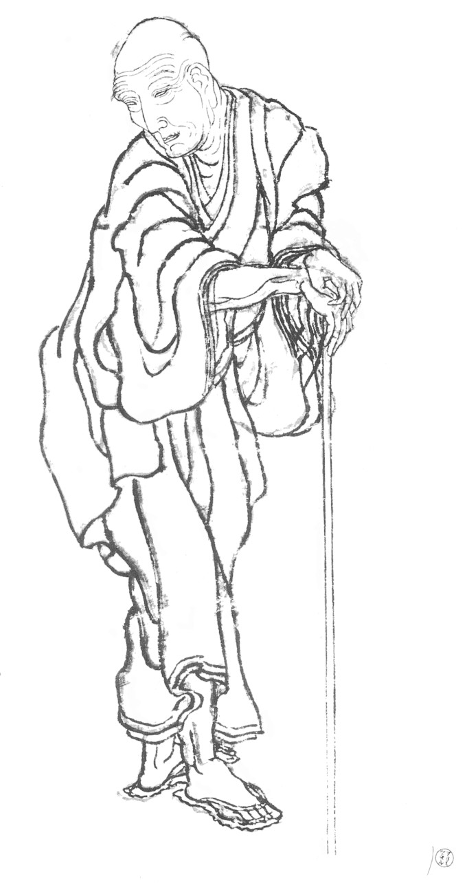 Self portrait as an old man. Original in Louvre.